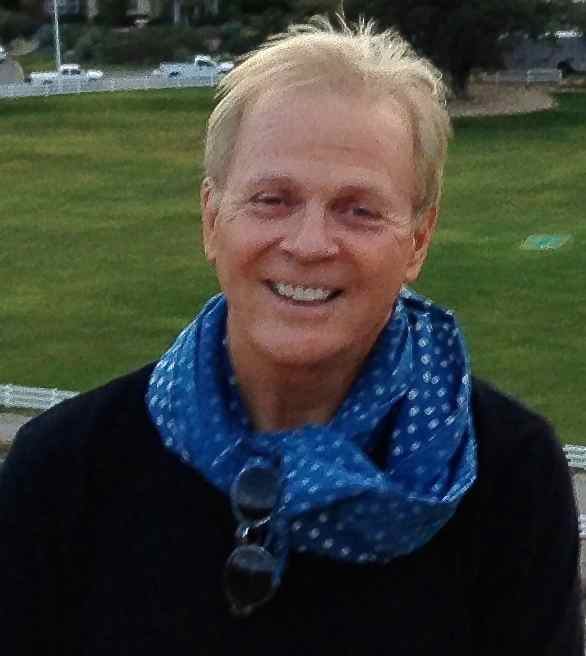 On the set of Justified